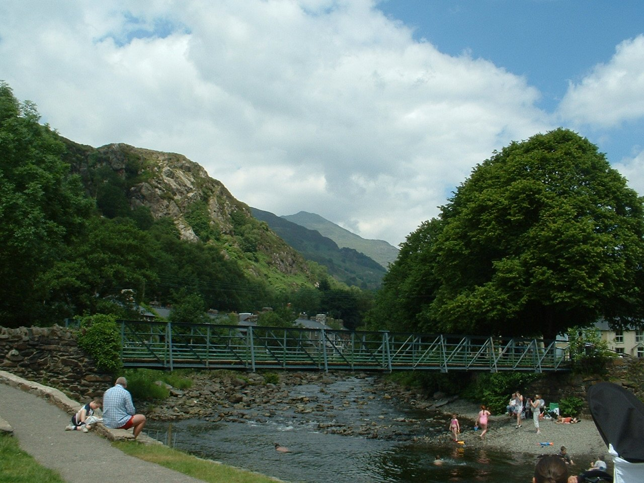 The River Glaslyn at Beddgelert. Taken by Necrothesp, 26 June 2005.